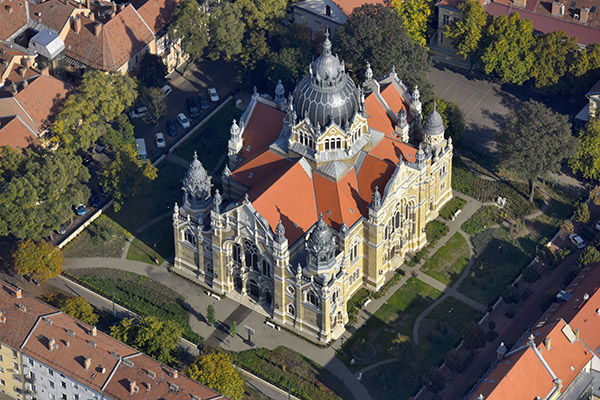 A zsinagóga légi felvételen (Szeged)